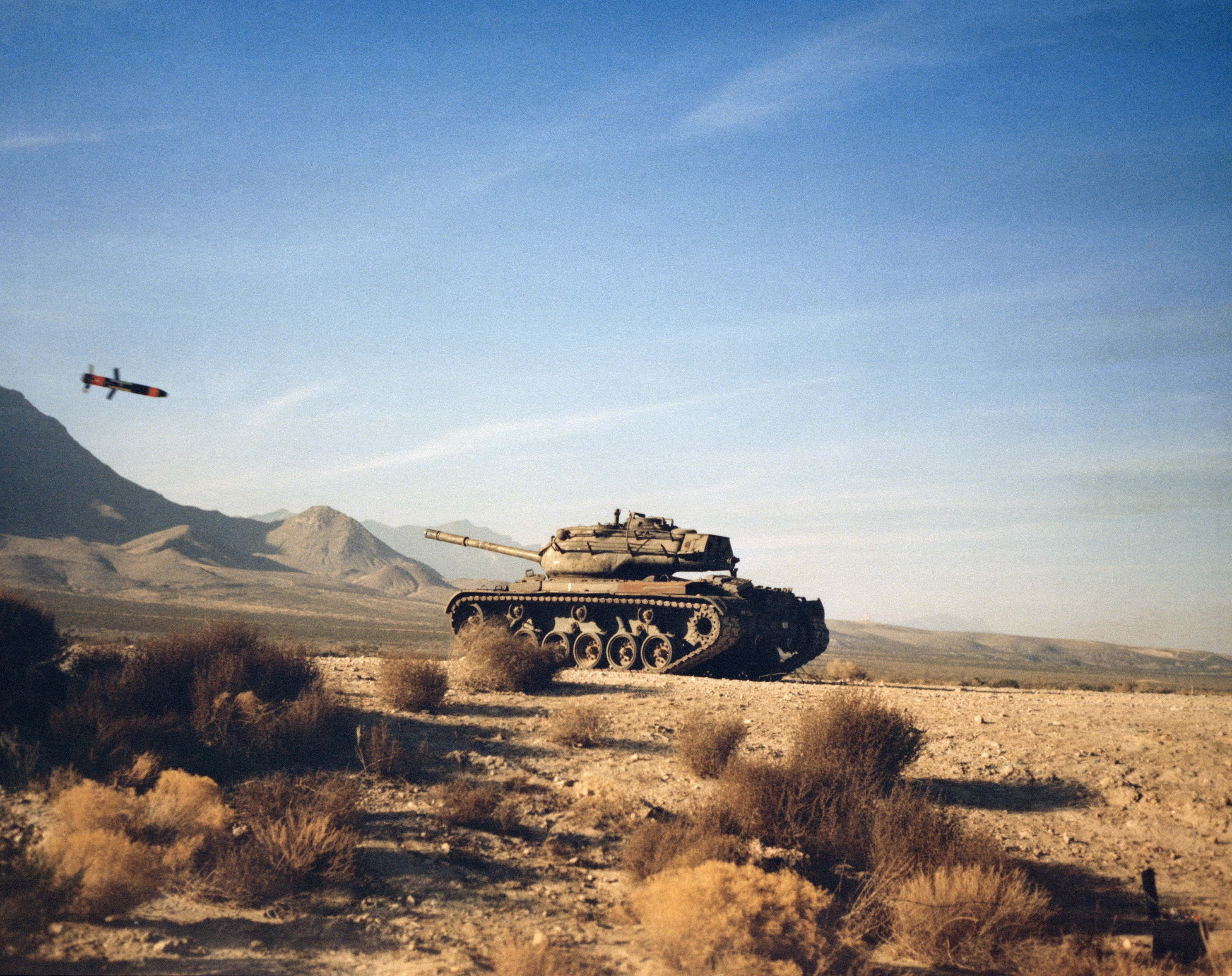 An M712 Copperhead cannon-launched laser-guided projectile nears the target, an M47 medium tank.